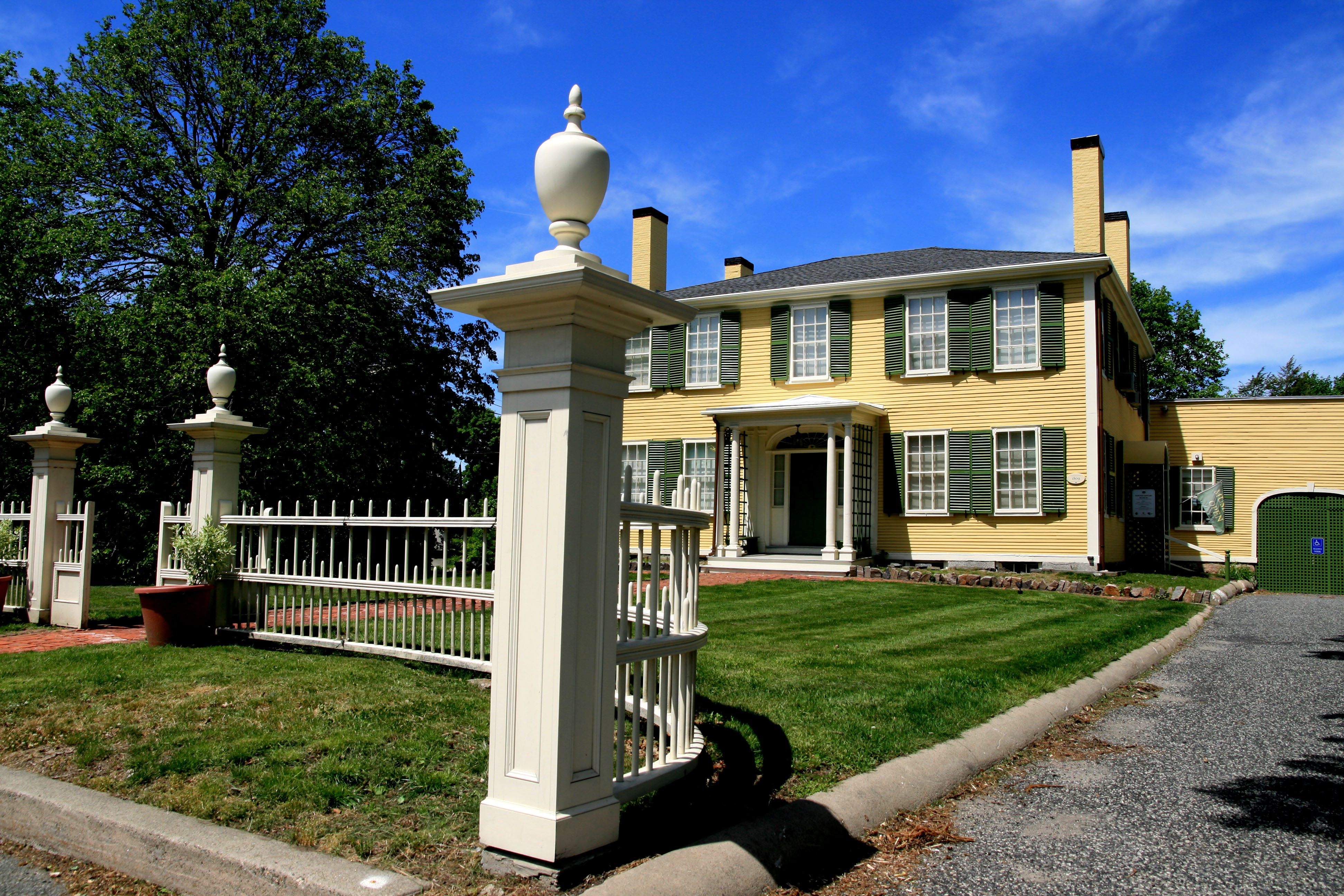 A picture taken of the Jackson Homestead in Newton, MA.